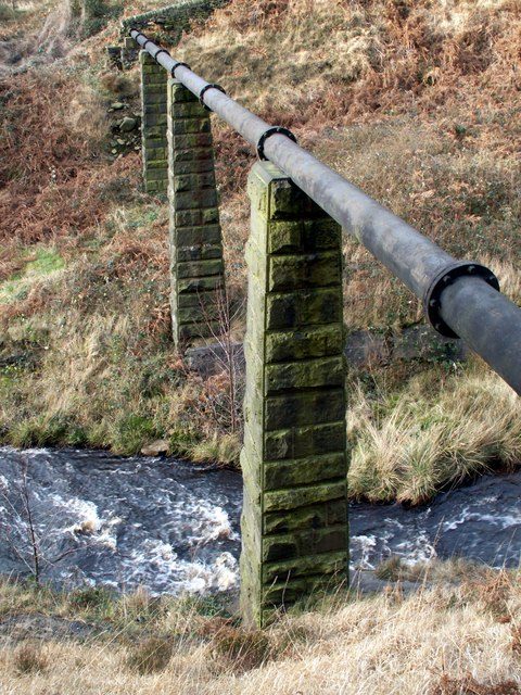 Stone piers supporting a water pipe Crossing the Rhodeswood Reservoir weir.